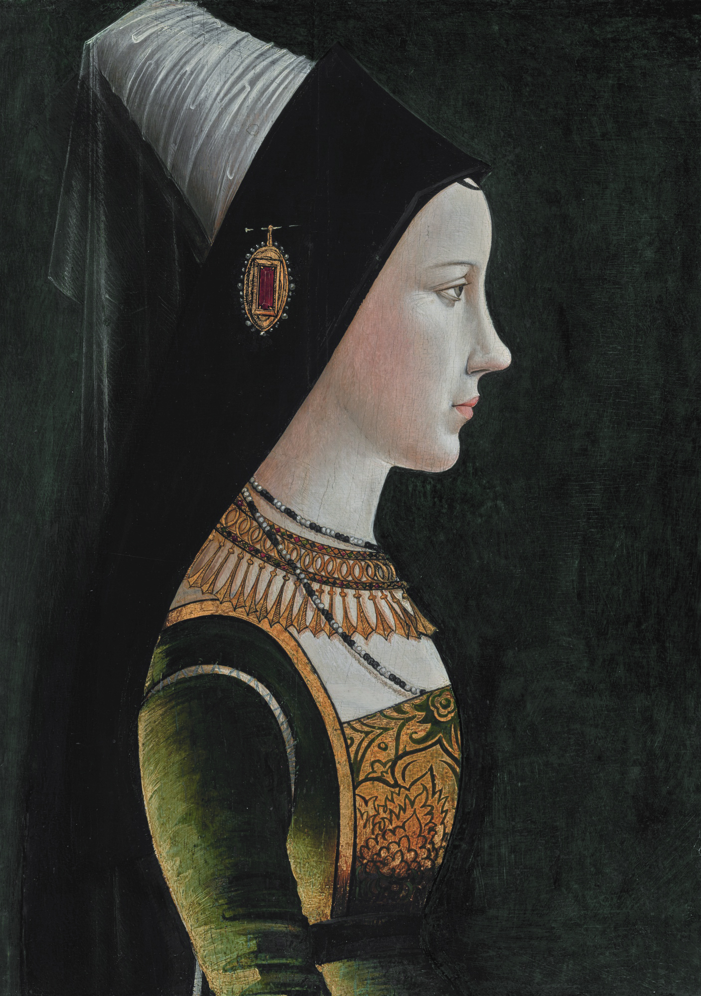 Mary of Burgundy (1458–1482) oil on oak panel 47.5 x 35 cm